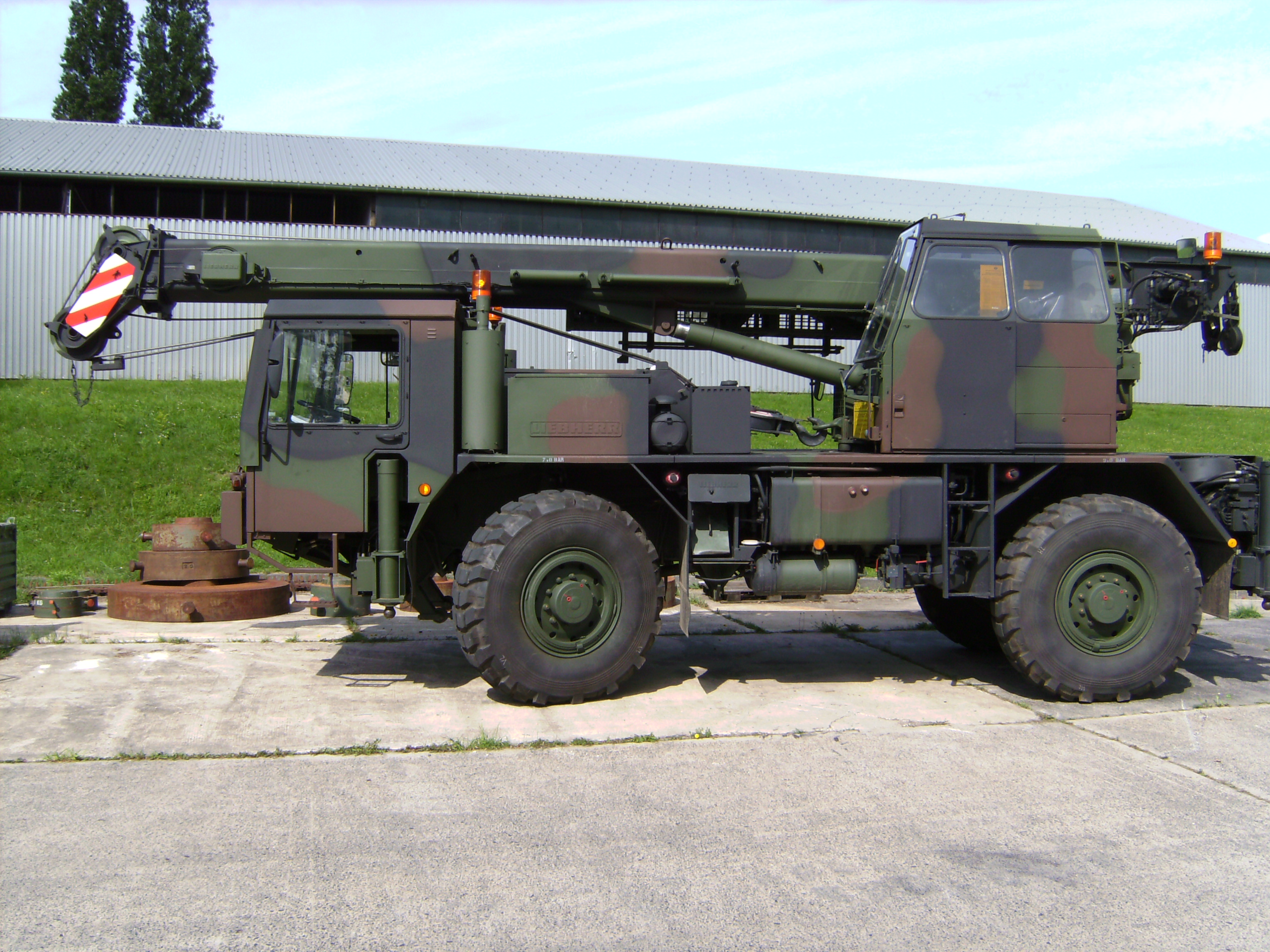 4x4 German Armed Forces crane (light) lifting capacity 10 tons